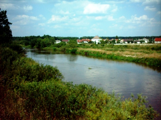 Mała Panew river near Jedlice, Opole Voivodeship, Poland